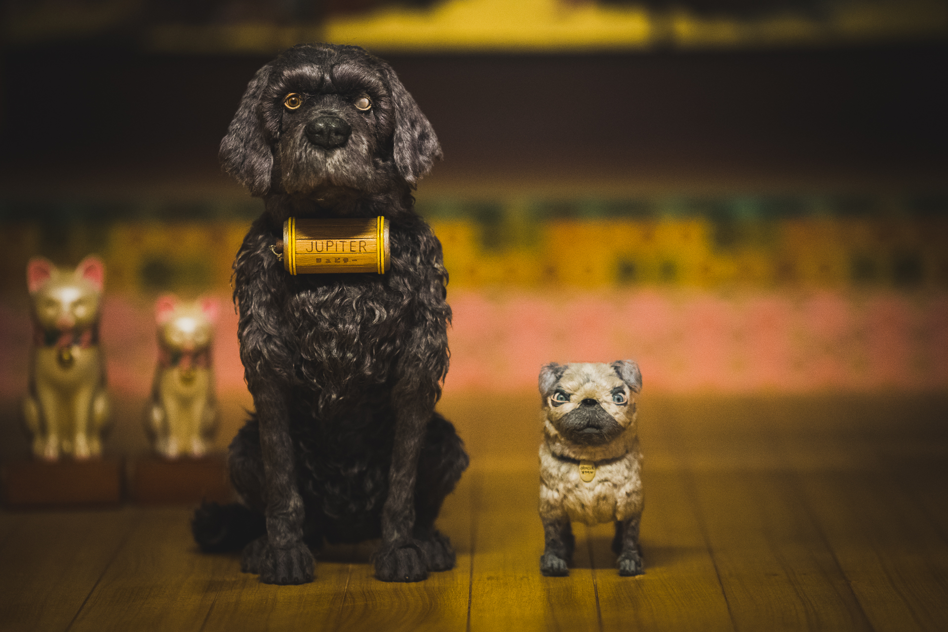 Sets from the film Isle of Dogs